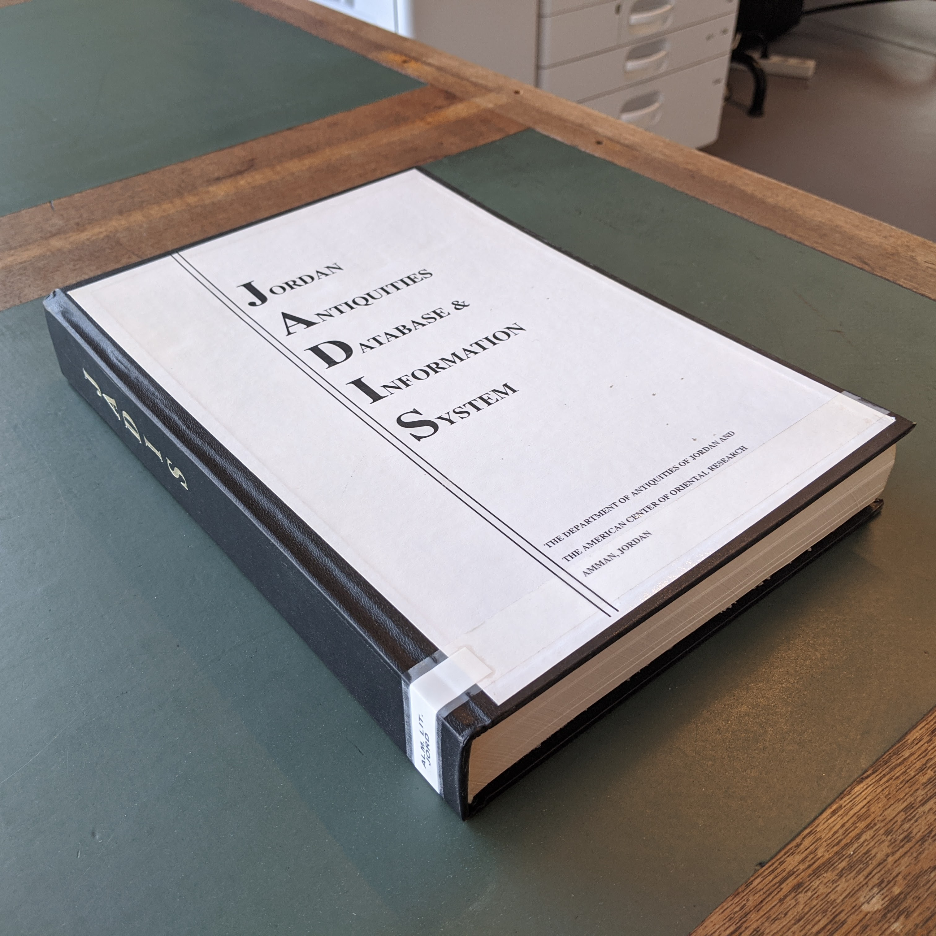 Photograph of a printed summary of the the Jordan Antiquities Database and Information System (JADIS), edited by Gaetano Palumbo and published in 1994.